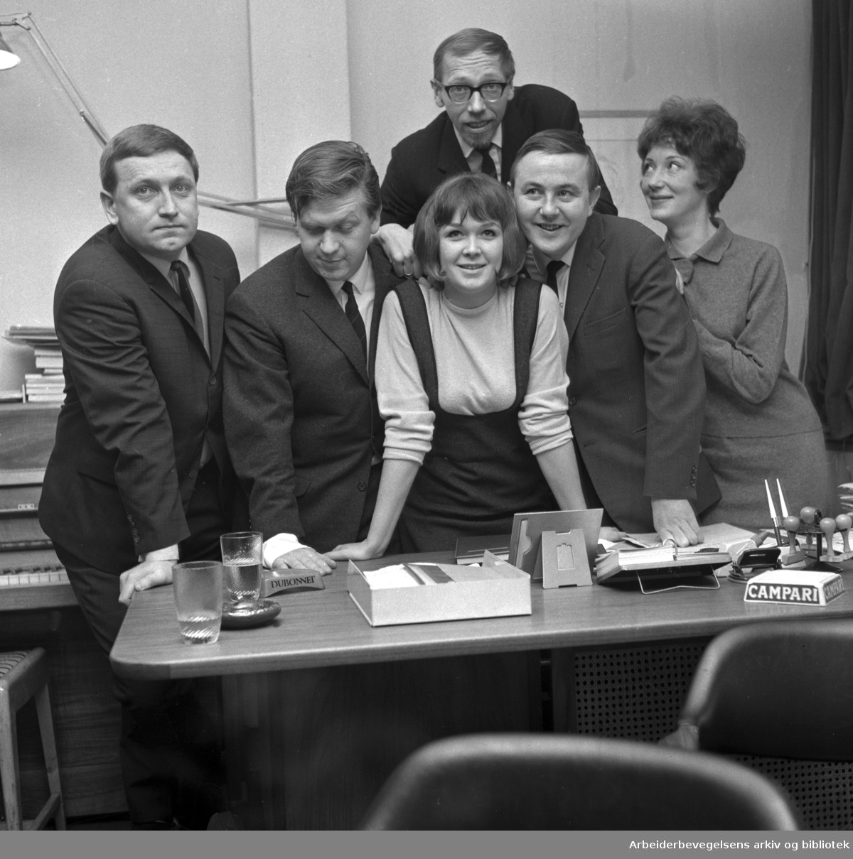 Lysthuset Revyteater. Fra venstre: Rolv Wesenlund, Harald Heide-Steen jr., Trulte Heide Steen, Svein Byhring og Eva Lystad. Bak: Bengt Calmeyer. 1965.